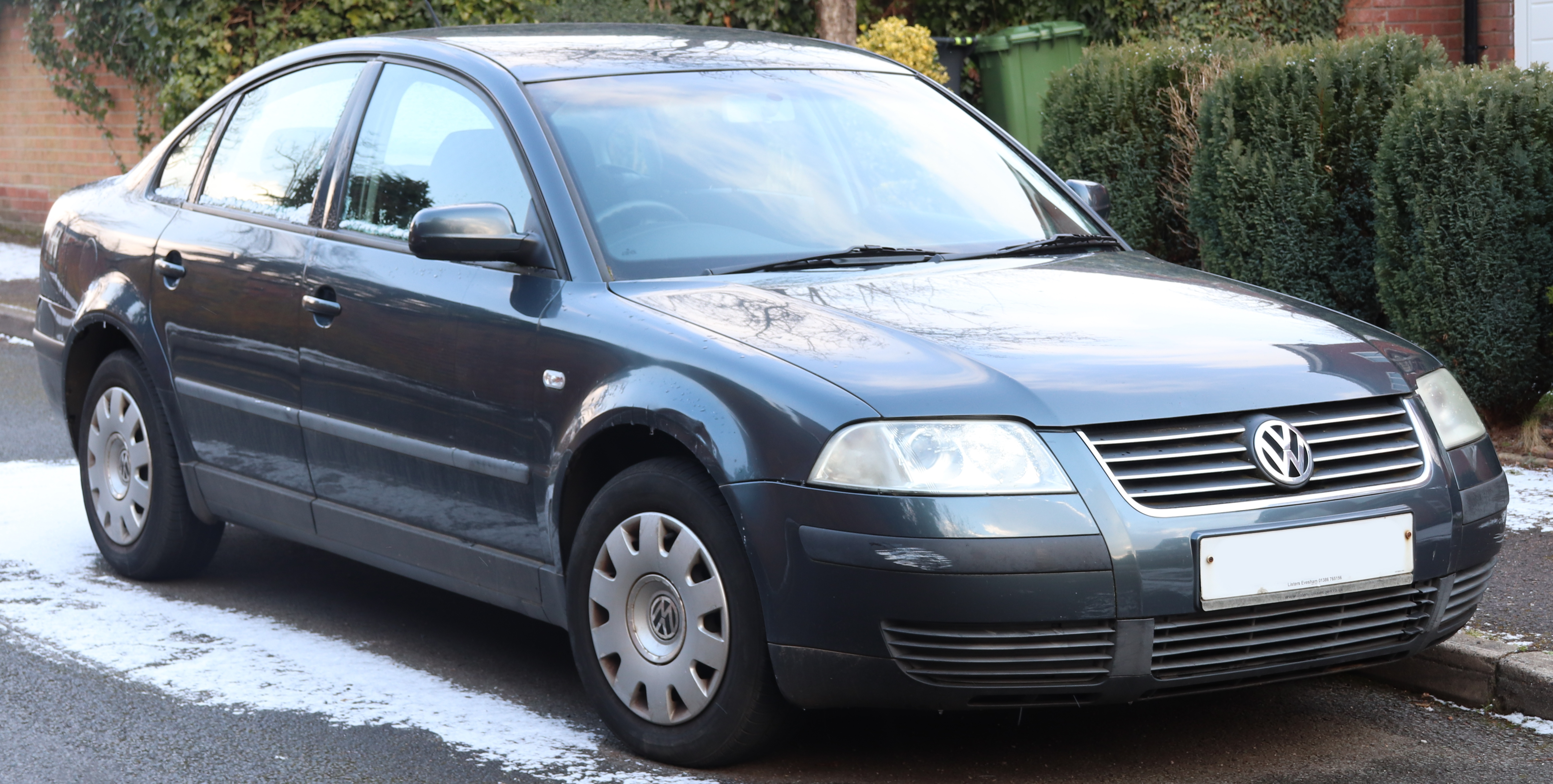 2001 Volkswagen Passat S Automatic facelift 2.0 Taken in Leamington Spa